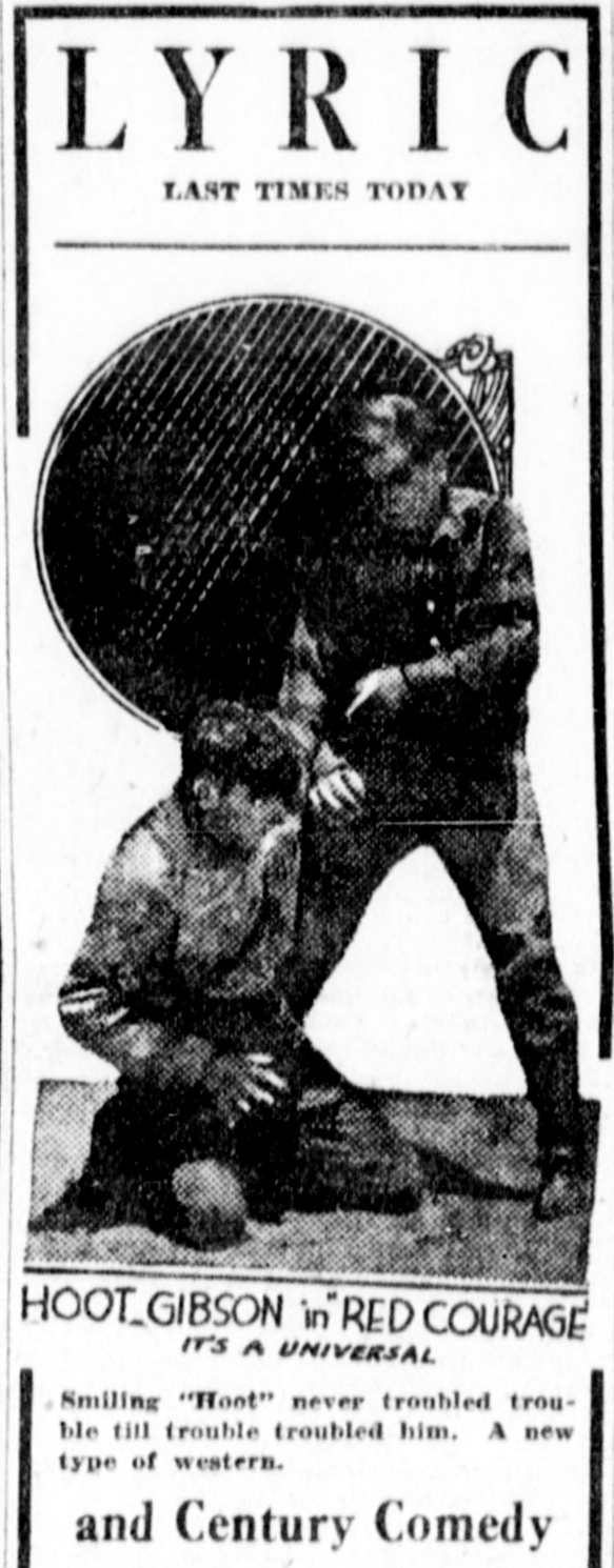 Red Courage is a 1921 American Western film directed by B. Reeves Eason and featuring Hoot Gibson. This is a newspaper advertisement.